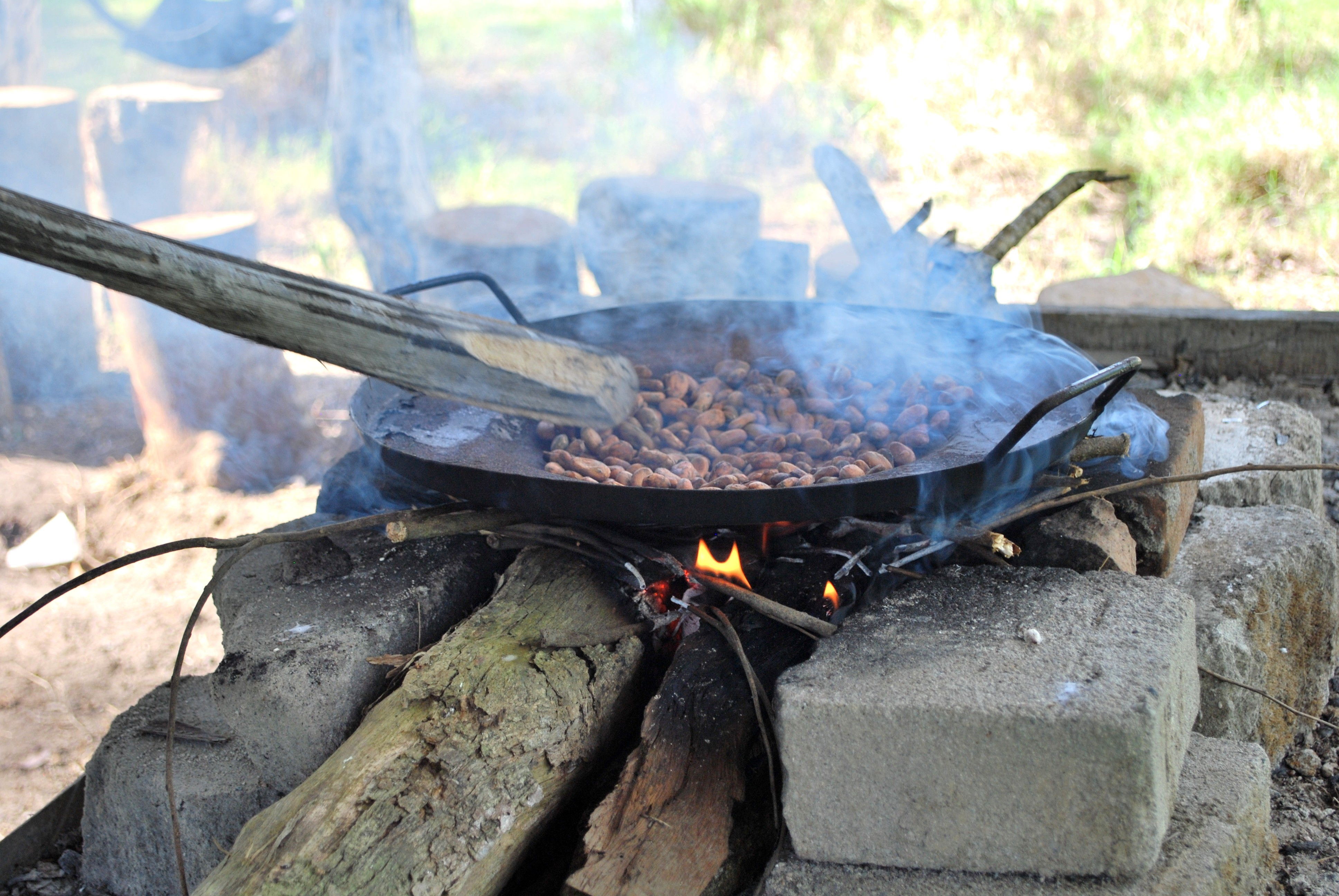 Toasting cacao beans at a workshop at the La Chonita Hacienda in Tabasco, Mexico